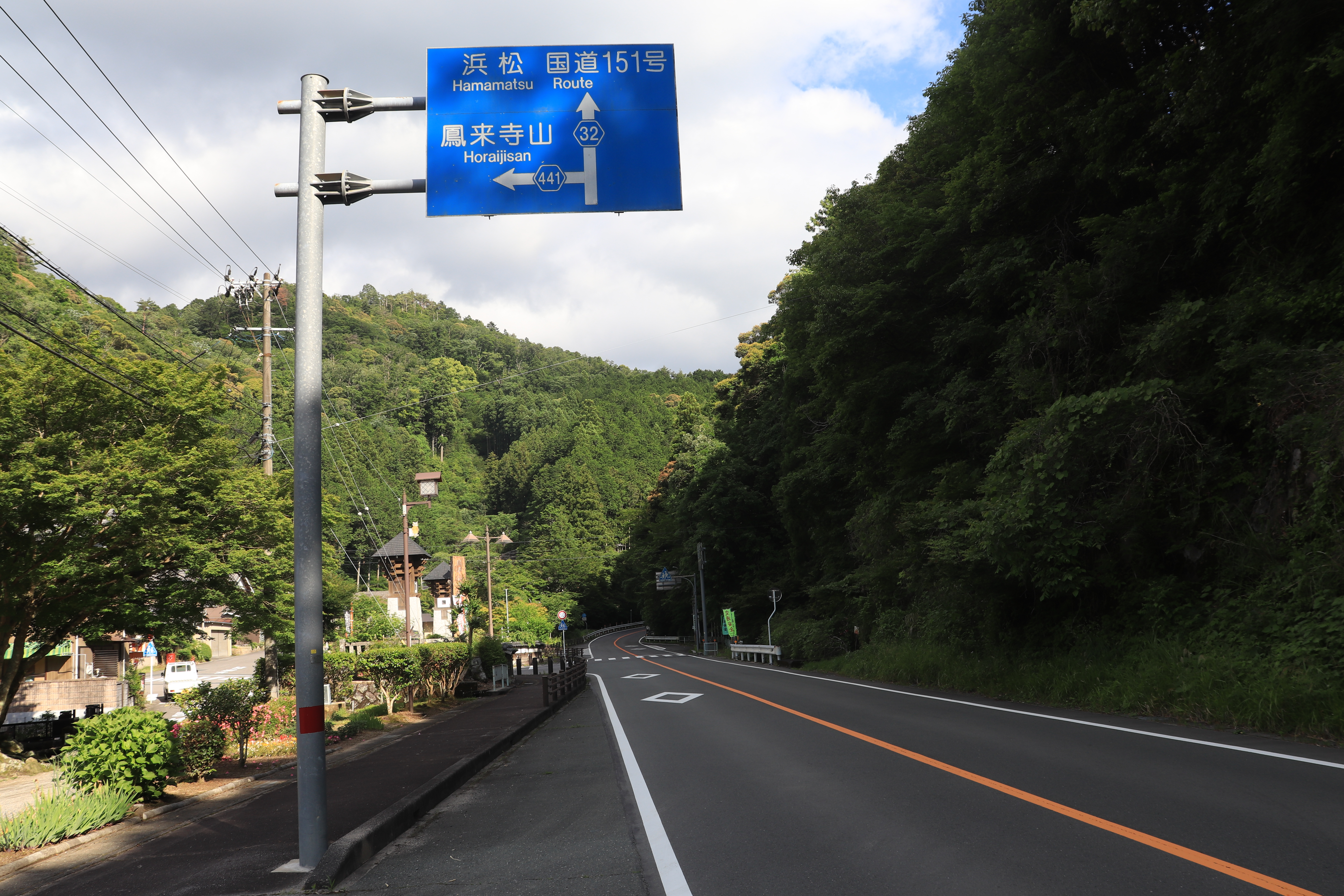 Aichi Prefectural Road Route 32 and Aichi Prefectural Road Route 441 in Kadoyakasagawa, Shinshiro, Aichi Prefecture, Japan.